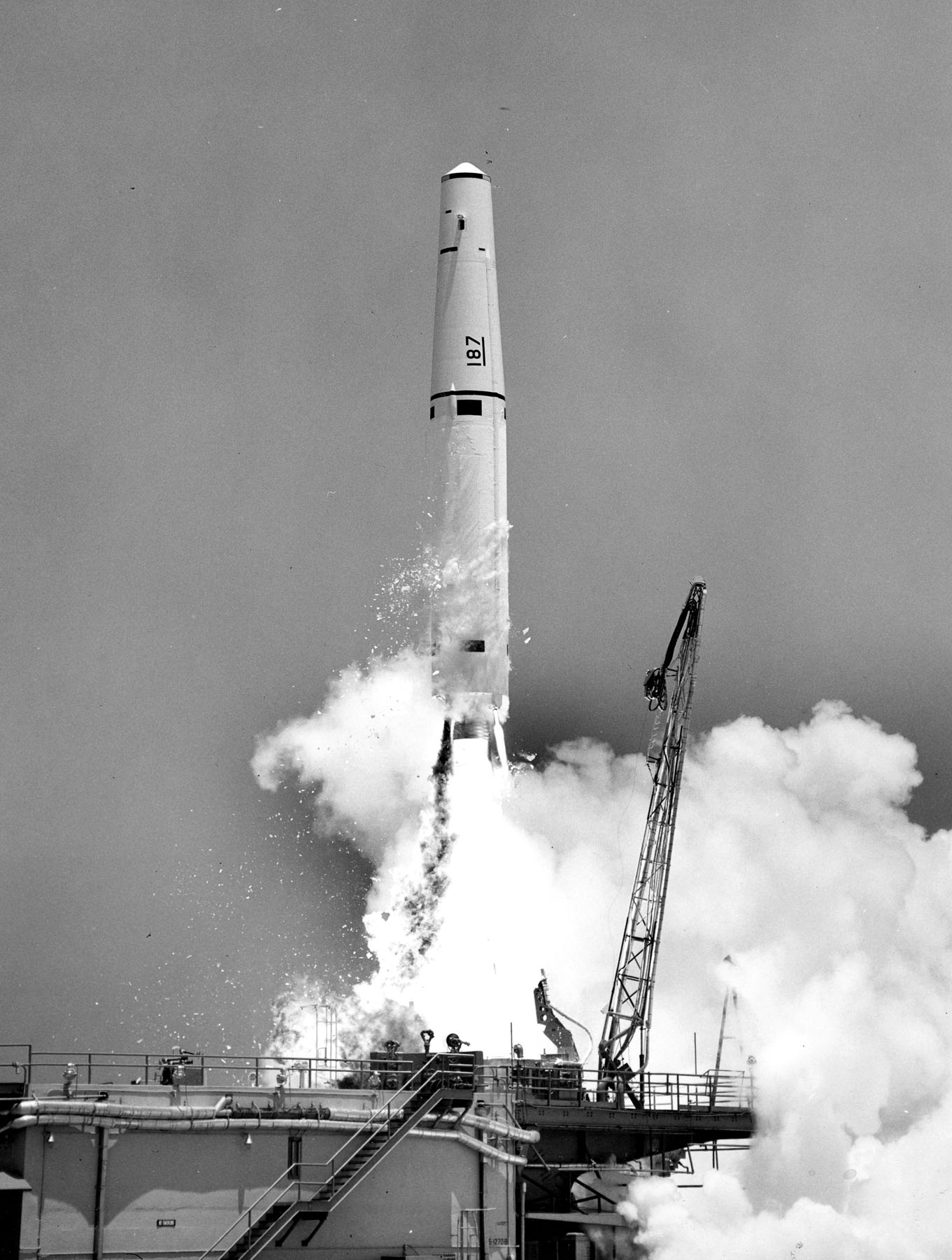 Thor missile test. Cape Canaveral, May 12, 1959. (U.S. Air Force photo).